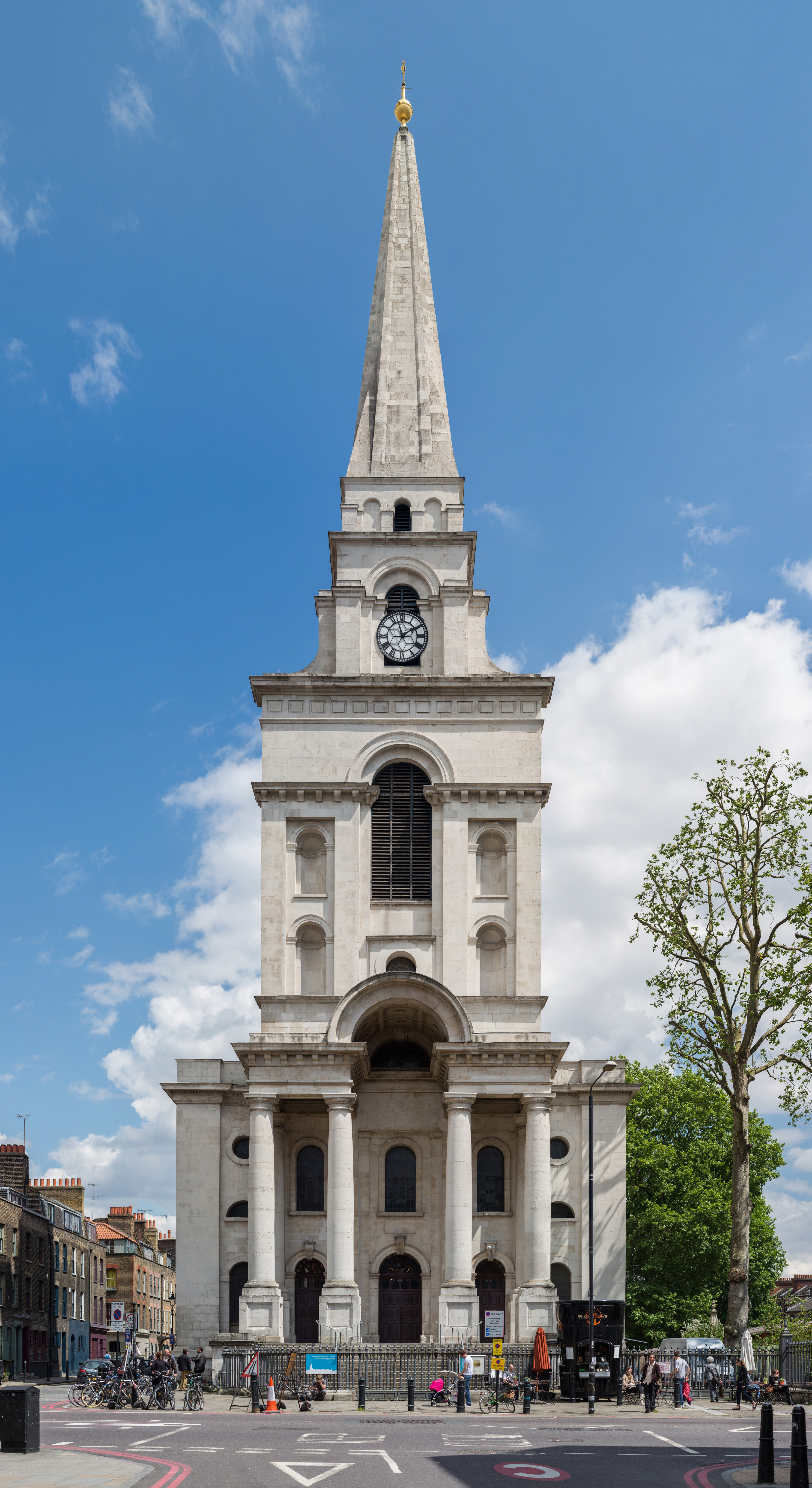 Christ Church, Spitalfields, as viewed from Brushfield st looking east.